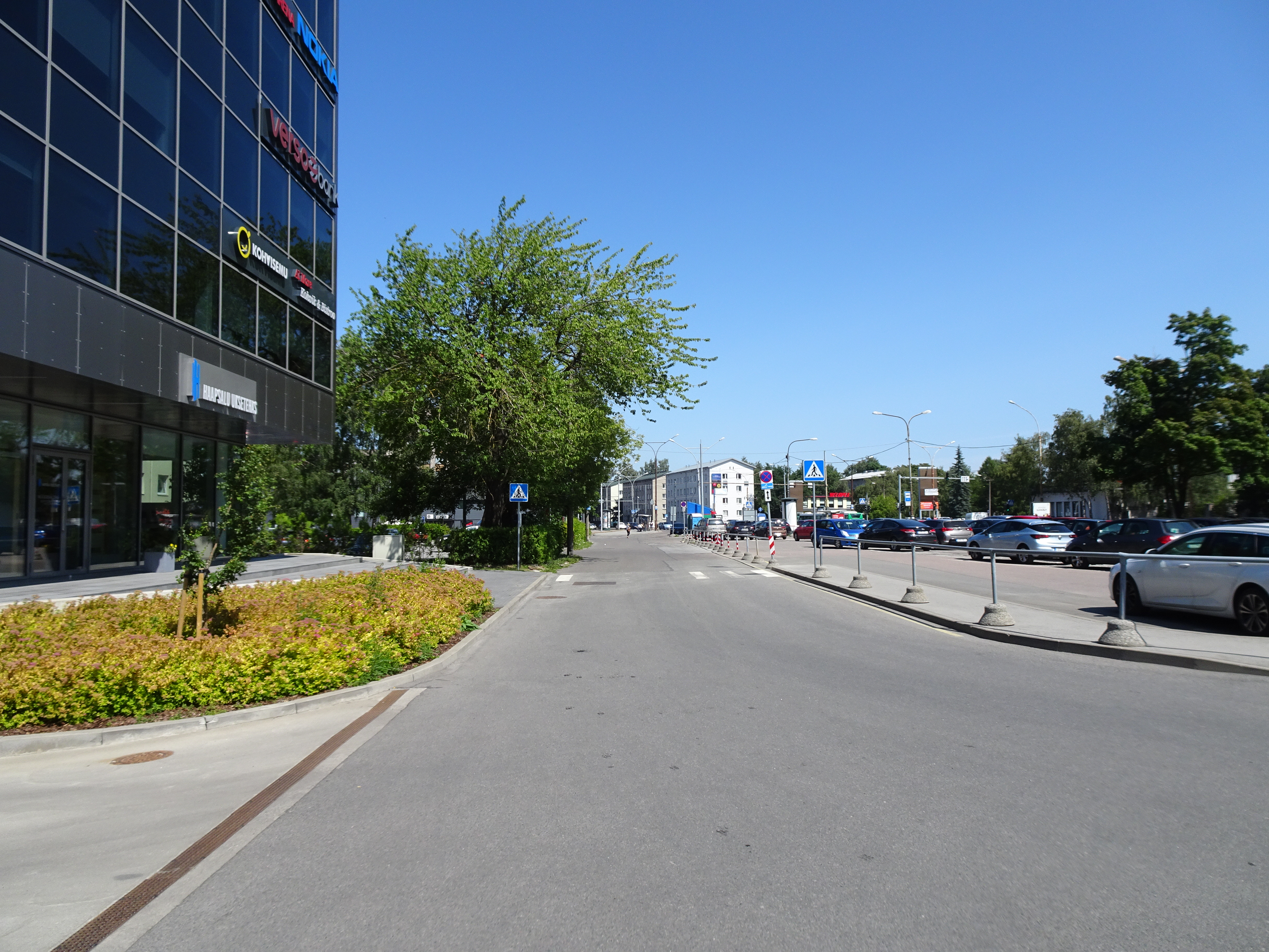 Hallivanamehe Street in Tallinn, Estonia